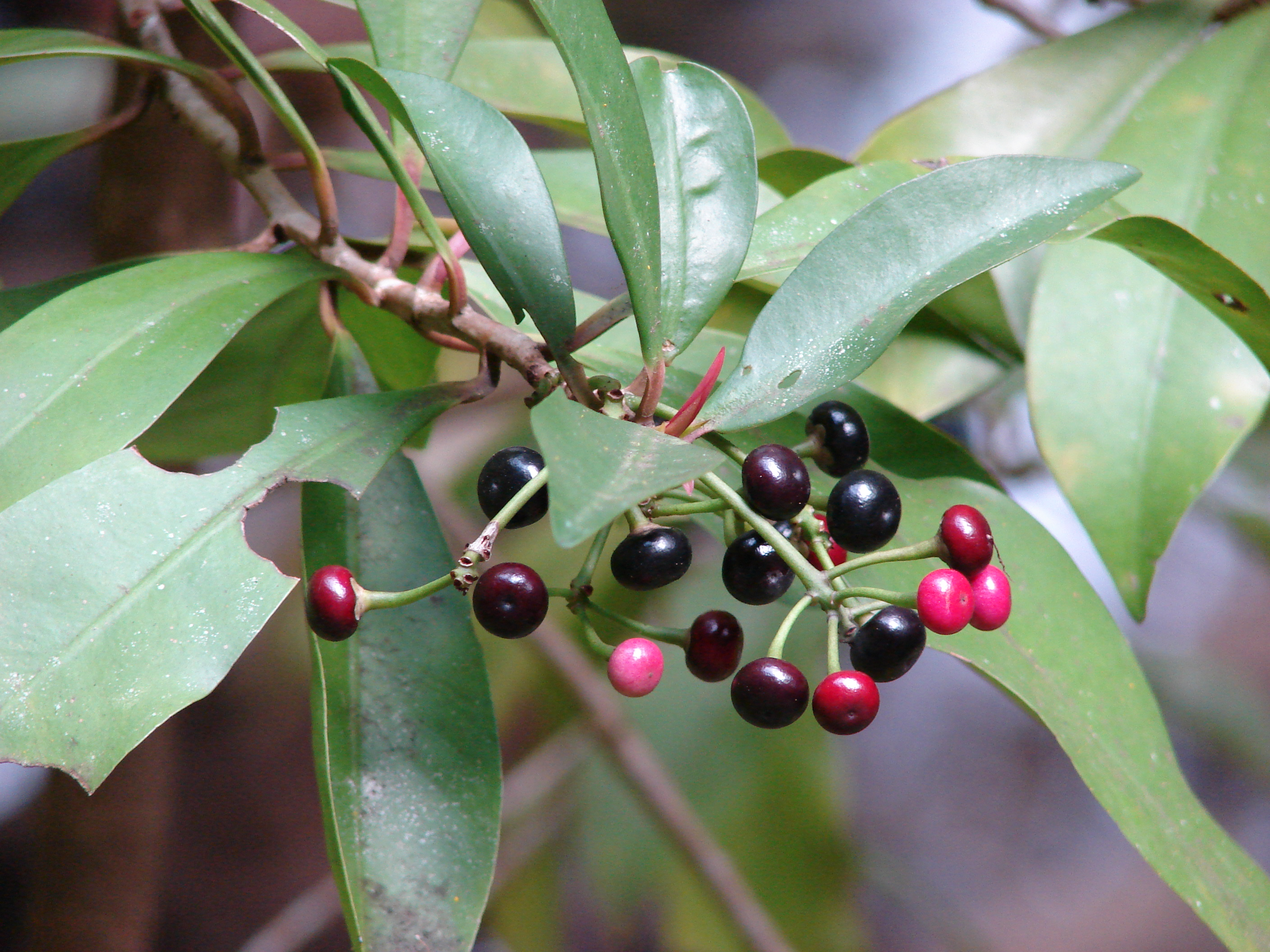 Ardisia elliptica (leaves and fruit). Location: Maui, Hana Hwy